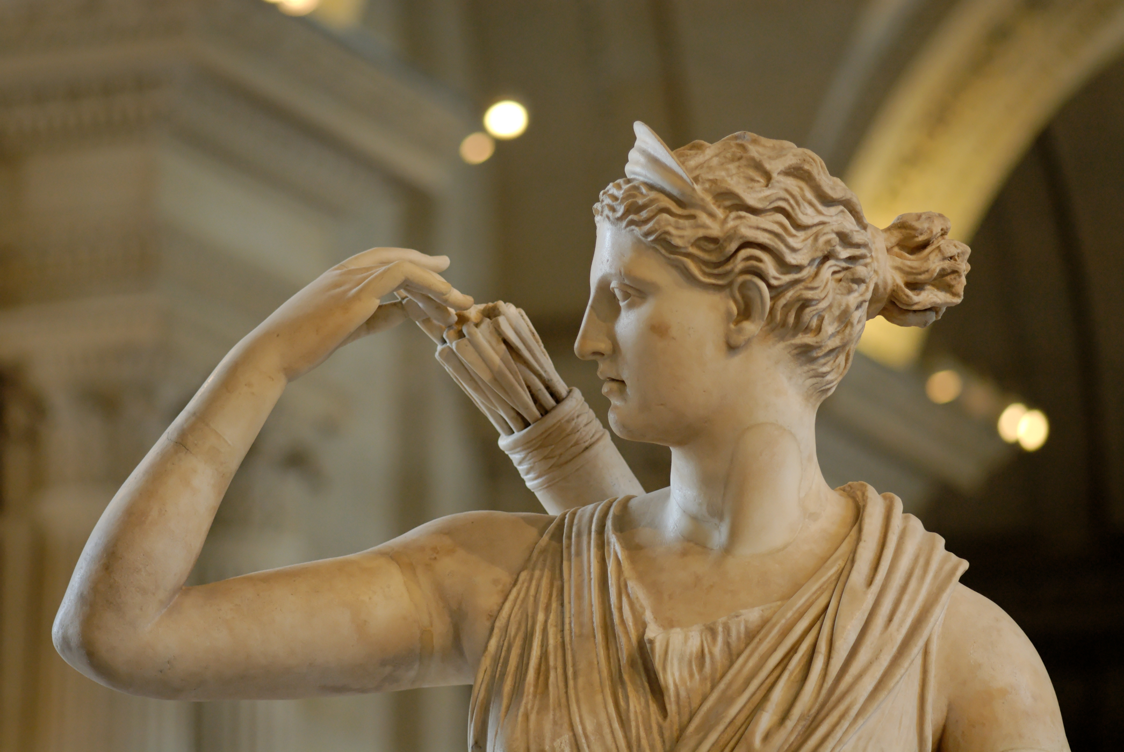 Artemis with a hind, better known as "Diana of Versailles" as it was long exhibited in the Versailles Castle. Marble, Roman artwork, Imperial Era (1st-2nd centuries CE). Found in Italy, maybe at Nemi (Latium).